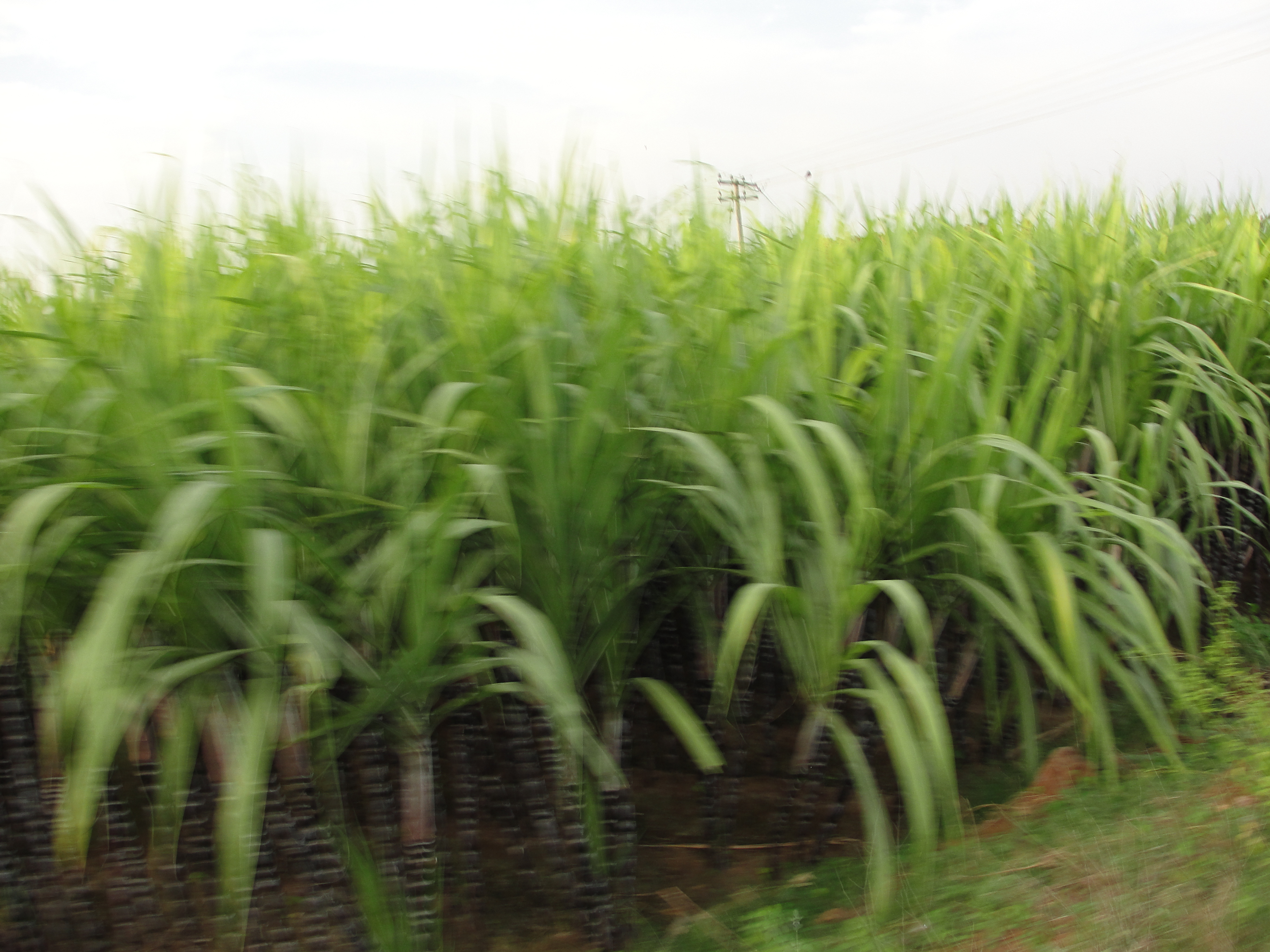 A sugarcane field